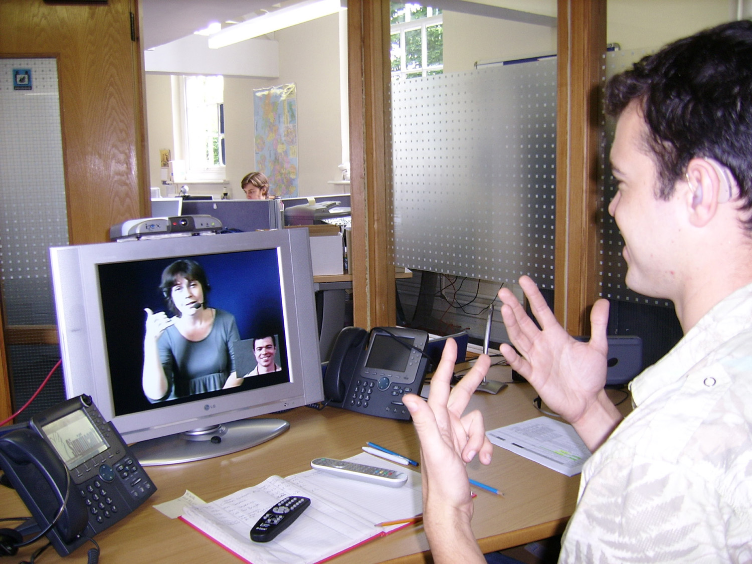 A Deaf, Hard-Of-Hearing or Speech-Impaired person at his workplace, communicating with a hearing person via a Video Relay Service video interpreter (a V.I., a Sign Language interpreter, shown on-screen), using a videophone. The hearing person with whom the video interpreter is also communicating can not be seen. The videophone camera rests above his computer monitor. Note as well the additional videophones on his desk.